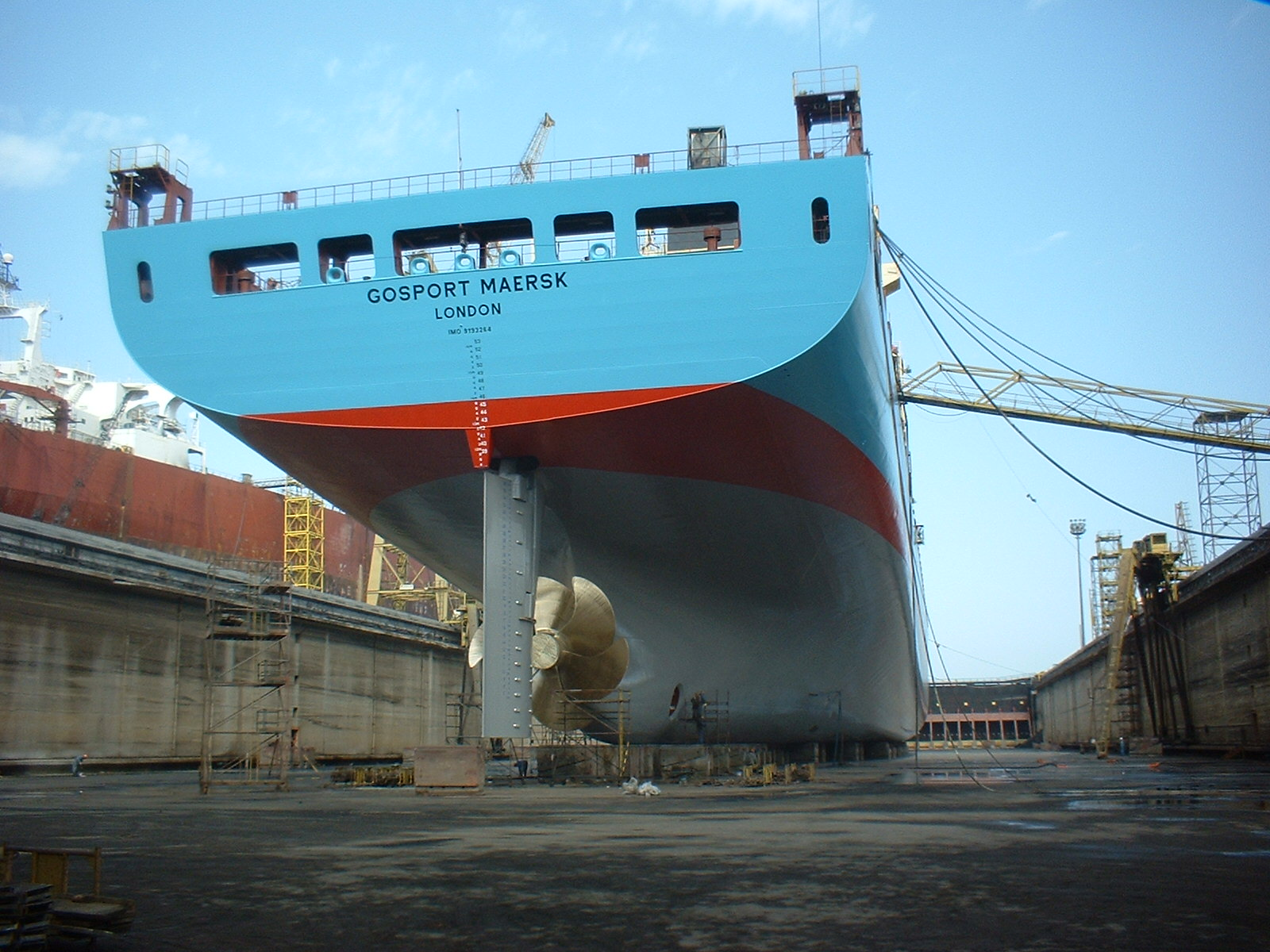 dubai drydocking yard